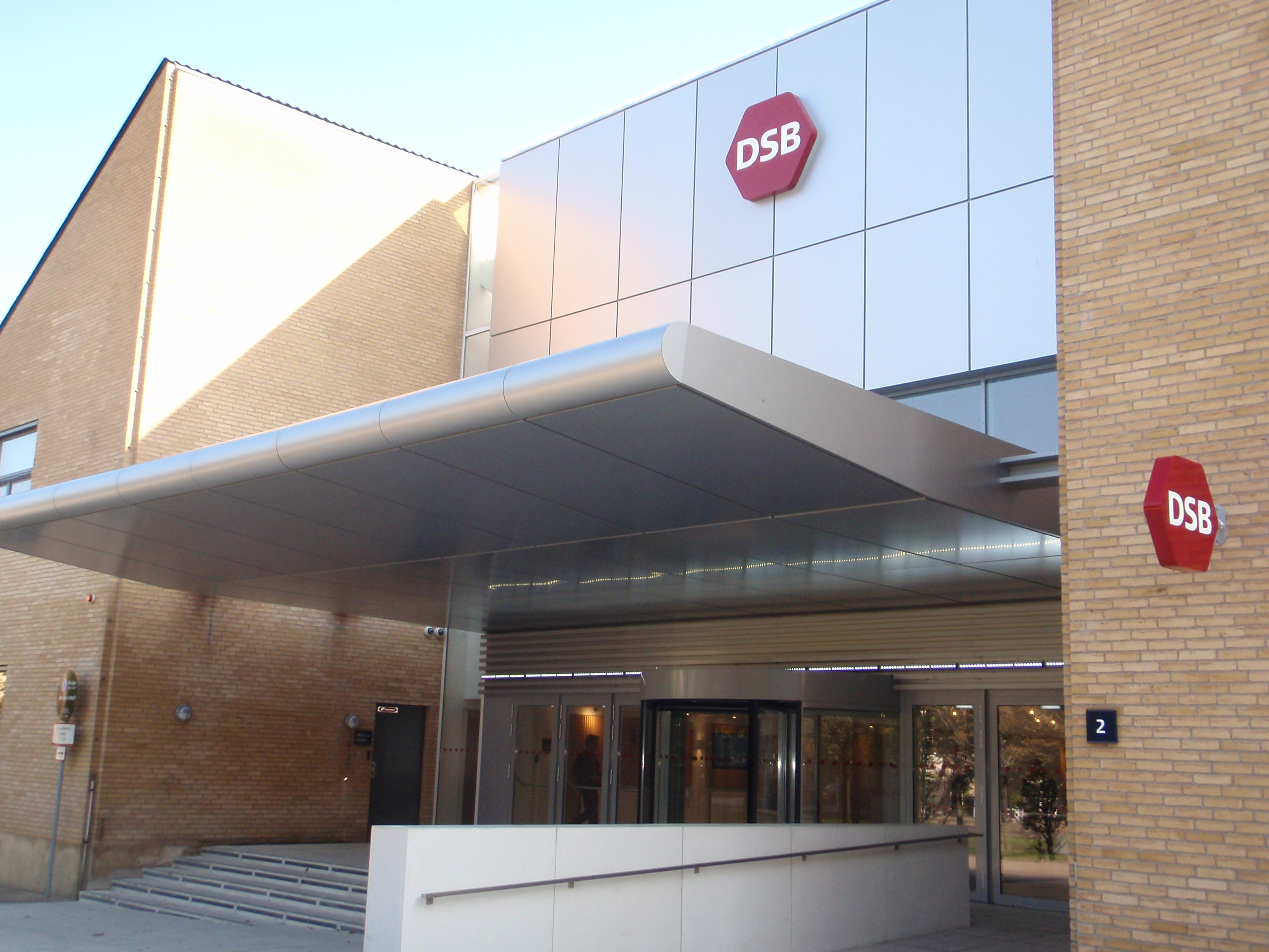 DSB Headquarters at Telegade 2 in Høje Taastrup with 2014 logos. Afternoon of Sep. 16